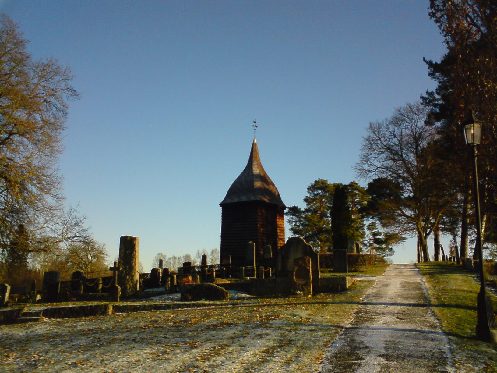 The belfry by the parish church of Nedre Ullerud, Värmland, Sweden.